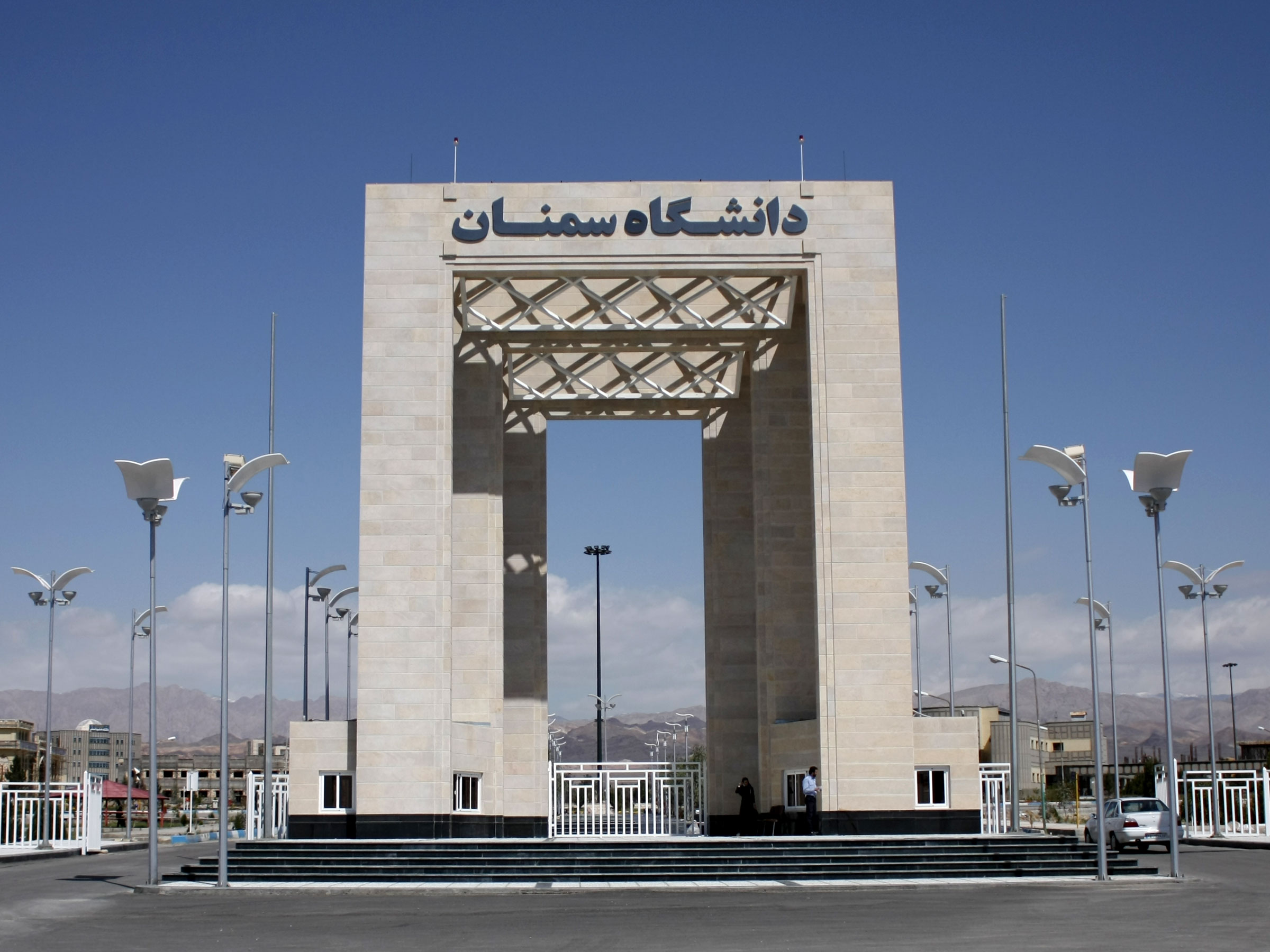 Gate of Semnan University